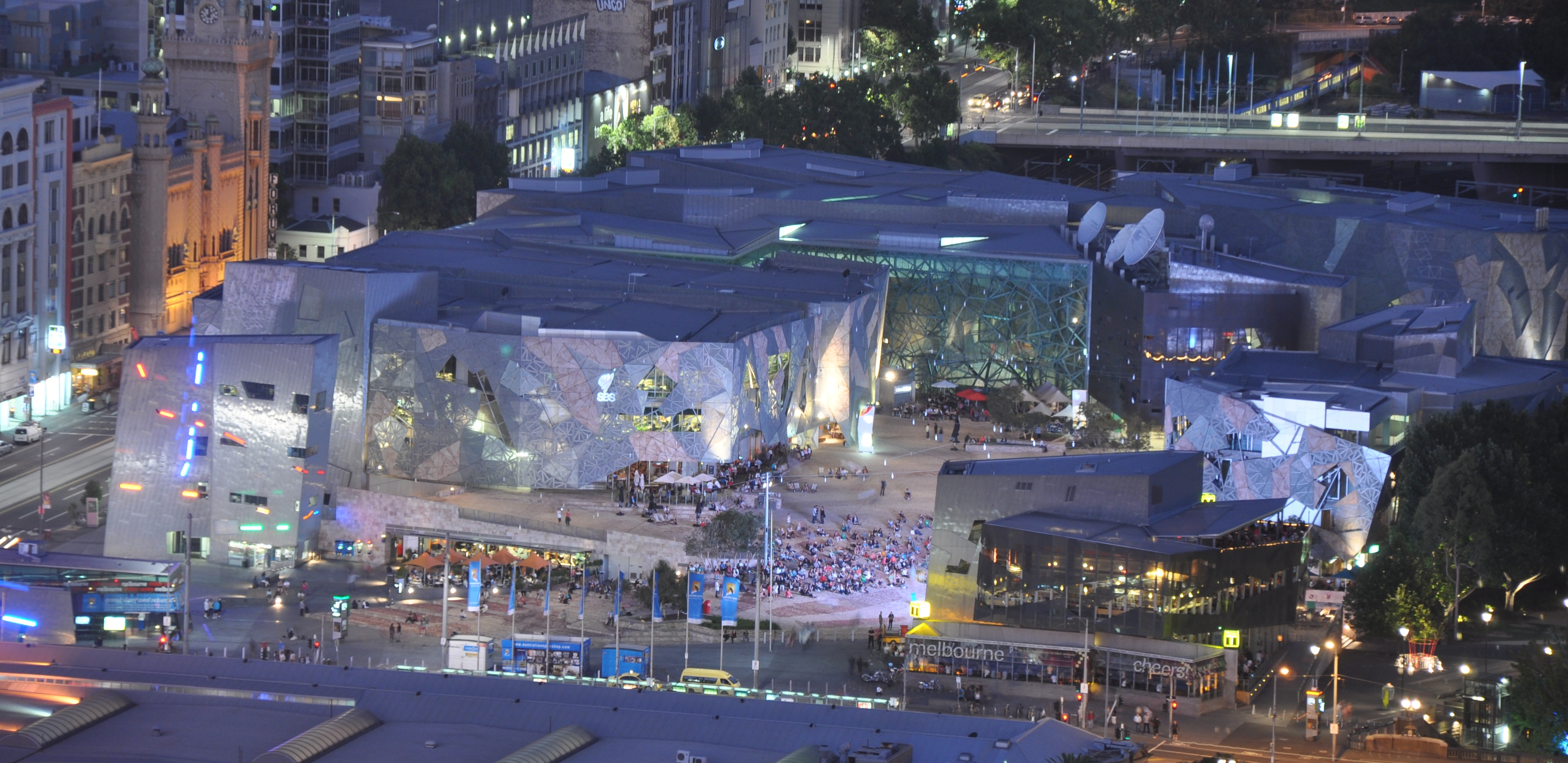 Federation Square (also colloquially contracted to Fed Square) is a civic centre and cultural precinct in the city of Melbourne, Victoria, Australia. It is a mixed-use development covering an area of 3.2 hectare and centred around two major public spaces, open squares (St. Paul's Court and The Square) and one covered (The Atrium) built on top of a concrete deck over busy railway lines and was opened in 2002. It is Victoria’s second most popular tourist attraction, attracting 8.41 million visitors in 2009. Its design has caused much controversy since its first planning and continued to divide opinion after its opening. Despite this, the precinct continues to expand. Unlike many Australian landmarks, it was not opened by the Queen, nor was she invited to its unveiling